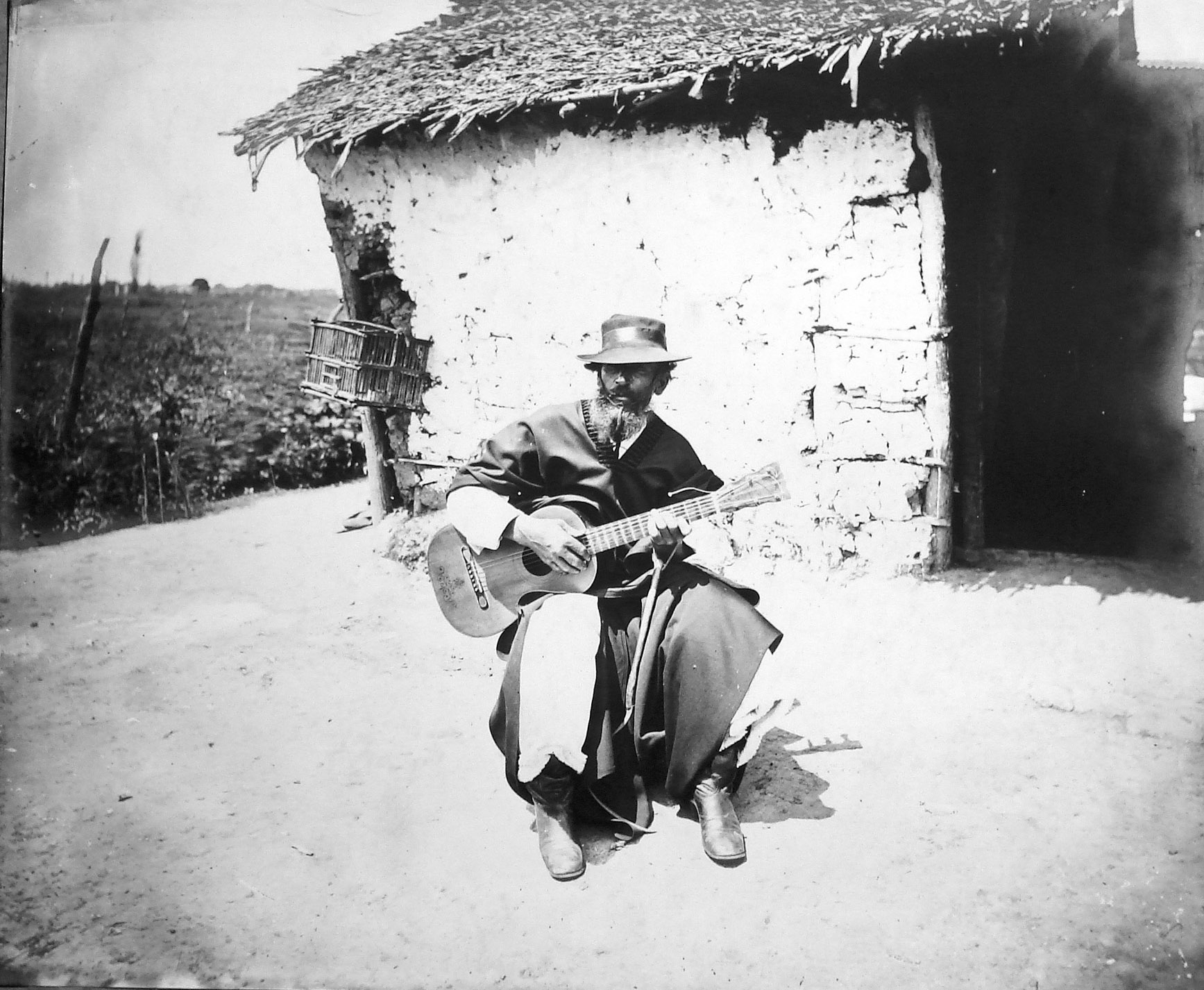 A "Payador", singing with his guitar in the Argentine Pampas.